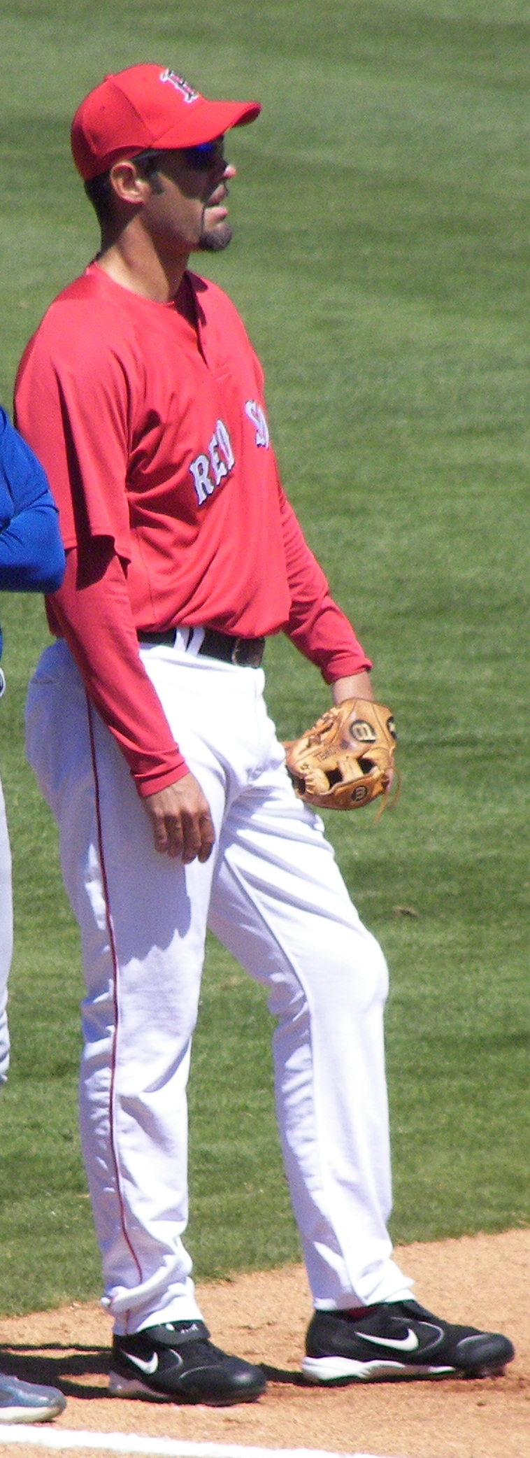 Boston Red Sox third baseman Mike Lowell during a Red Sox/Los Angeles Dodgers spring training game at City of Palms Park in Fort Myers, Florida.